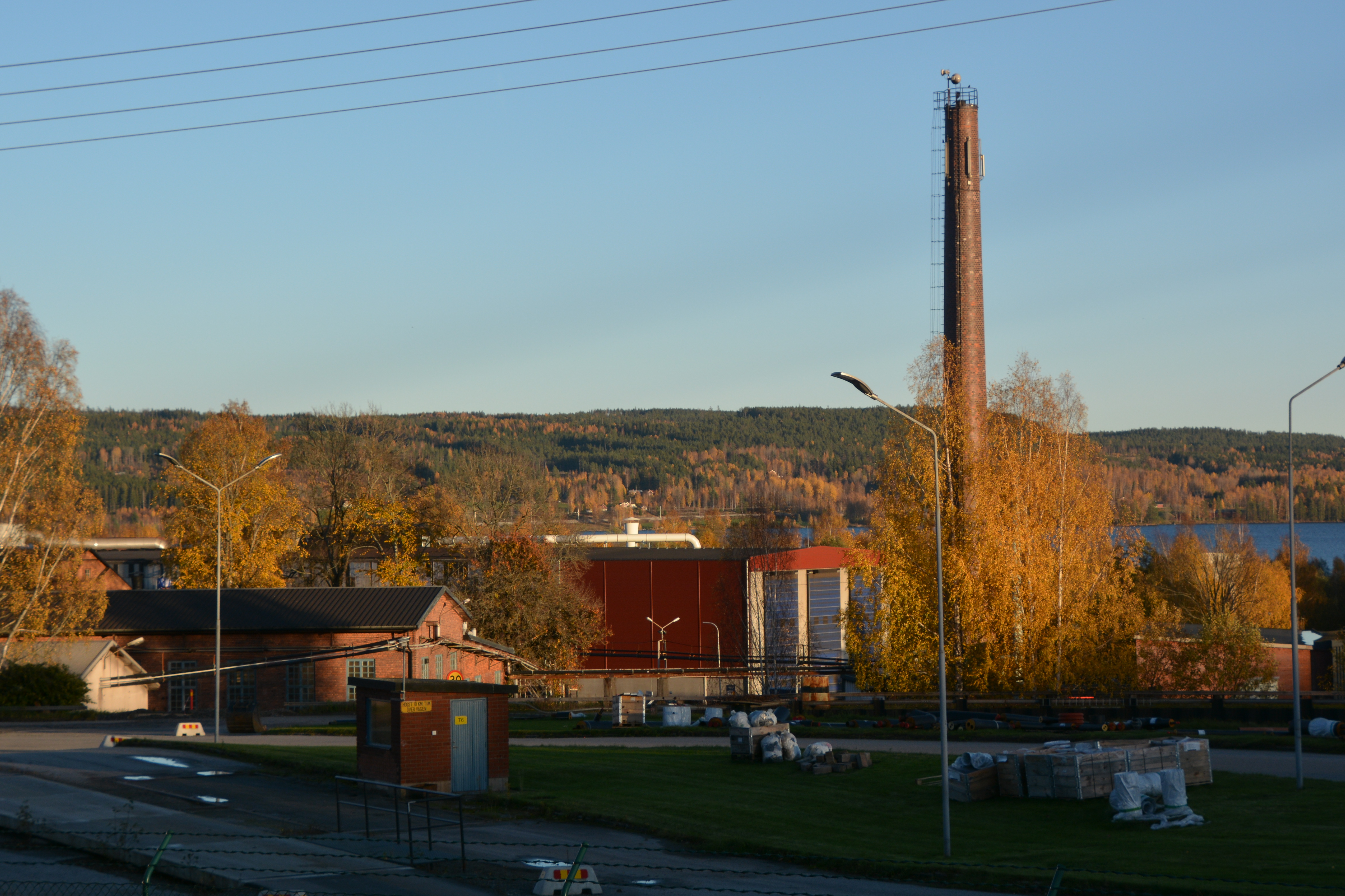 Vestas Castings Guldsmedshyttan